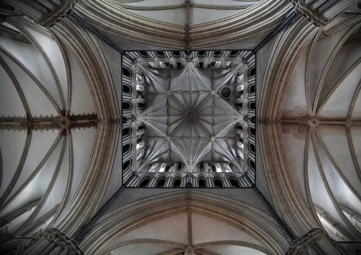 Lincoln Cathedral, Lincoln, England